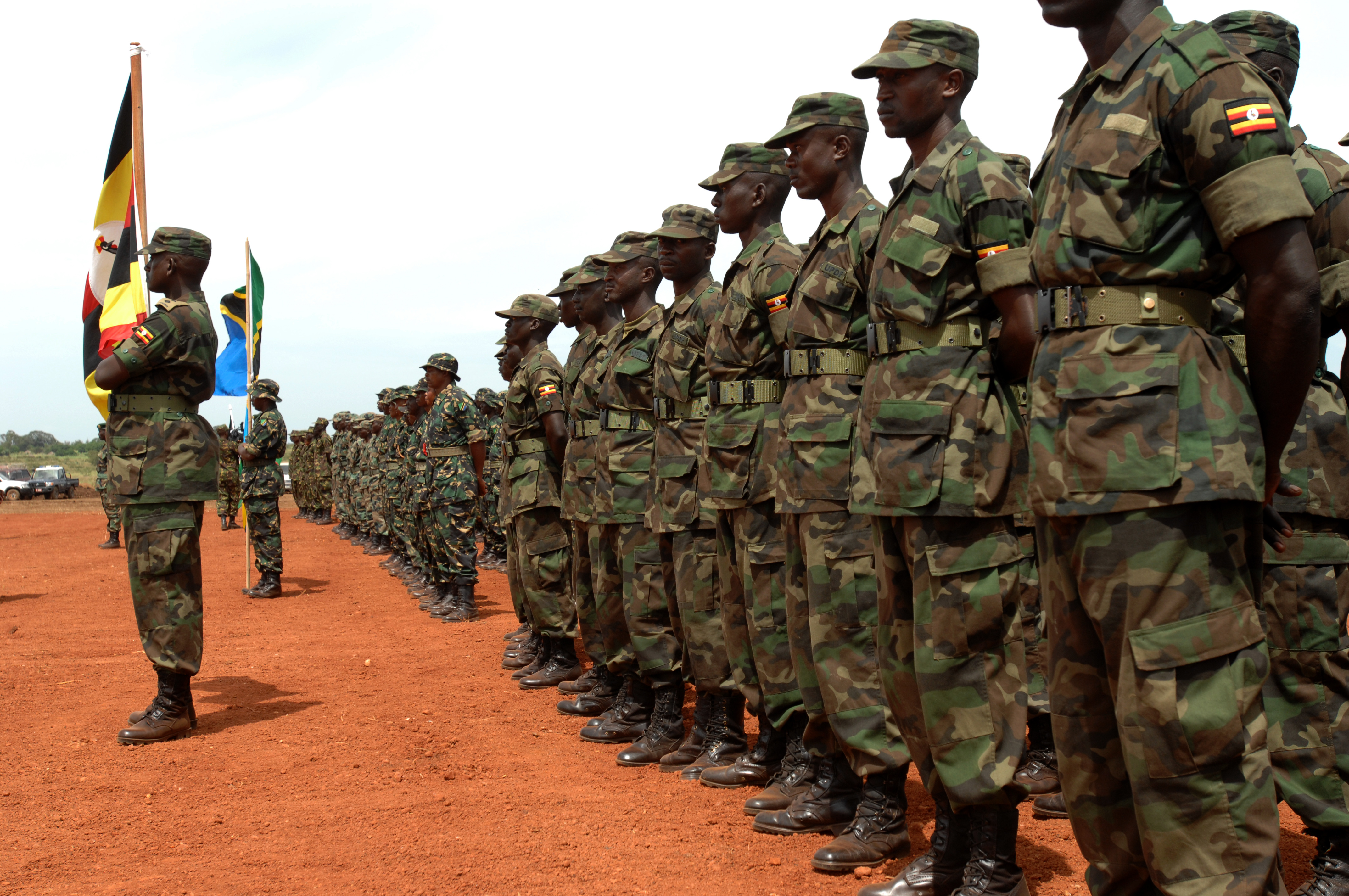 U.S. and African troops participate in opening ceremony for U.S. Army Africa's exercises Natural Fire 10, Oct 16, 2009, Uganda, Africa. The partnership exercise named Natural Fire 10, a multinational military exercise involving five East African partner states - plus partners from the U.S. military - began Oct. 16 in northern Uganda. Photo by Air Force Sgt. Samara Scott